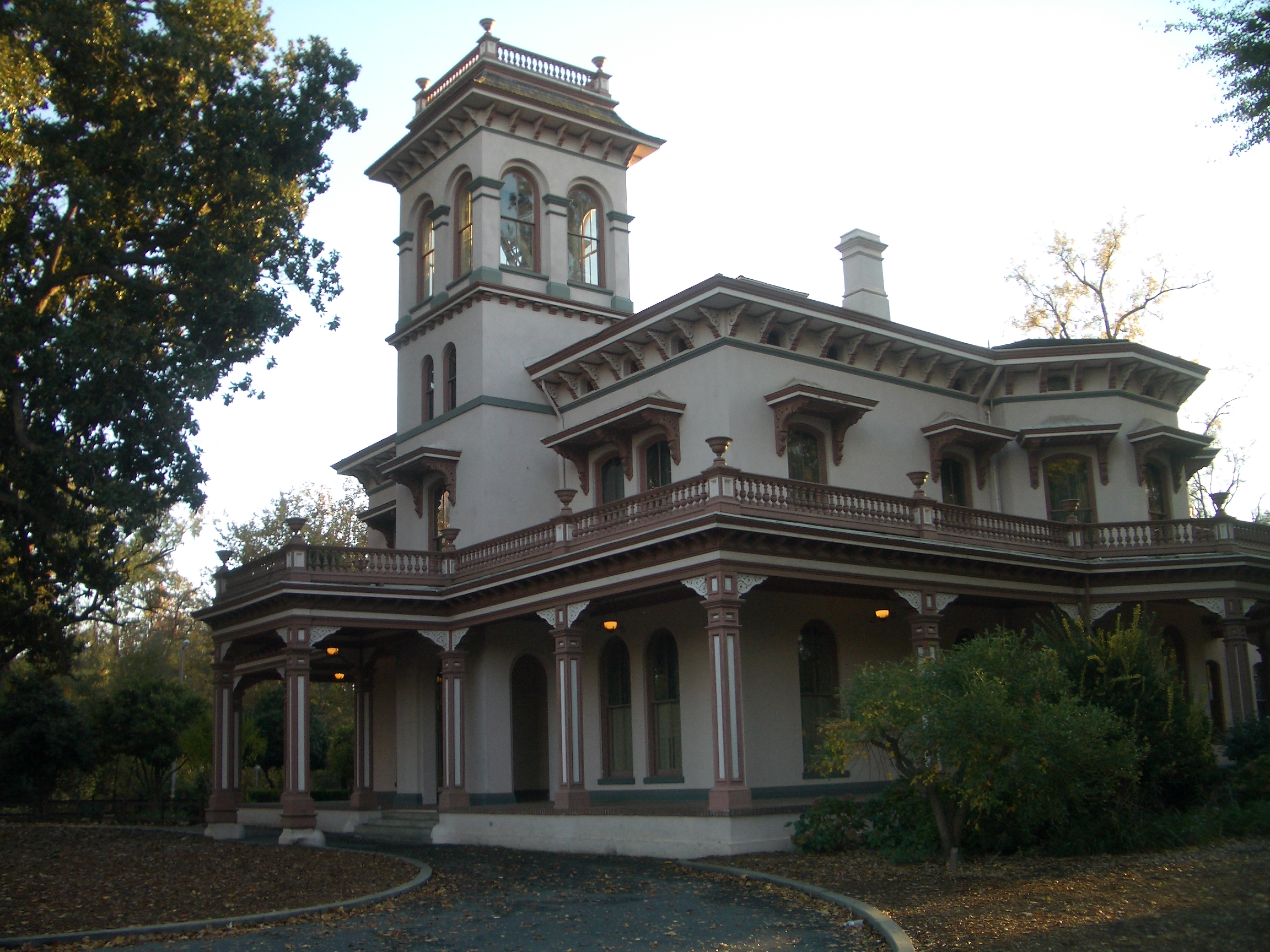 The Bidwell Mansion — in Chico, California. The entrance facade with porte-cochère, verandas, and tower. The three story, 26 room Victorian house (completed 1868) became the social and cultural center of the upper Sacramento Valley during the latter 1800s. Credits by Michael Favor, 2006.11.14, released under GFDL, late afternoon in autumn --Michaelfavor 00:07, 17 November 2006 (UTC) Category:Images of Chico